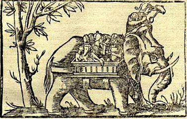 Porus’s elephant cavalry, according to Munster’s famous Cosmographia (1544) Source: ebay, Apr. 2004 "Woodcut leaf from "Cosmographia" (1544) by Sebastian Münster. French edition; Basel printing house of Sebastian Heinrich-Petri 1552. Book V, pages 1329/30. This leaf from the early French edition of Cosmographia is devoted conquest of India by Alexander the Great. It describes the greatest of Alexander's battles in India against Porus, one of the most powerful Indian leaders - the rajah of the lands between the Jhelum and the Chenab rivers in the Punjab. The battle took place in July 326 B.C.E. at the river Hydaspes. After facing the Indians for days across an unfordable river, Alexander, by using diversionary tactics, managed to cross the stream above their camp. More troublesome to Alexander than the numerical superiority of Porus' 34,000-man army were the 200 elephants that threatened the effectiveness of the Macedonian cavalry. During the battle, Alexander overwhelmed Porus' left wing, forcing it back upon the elephants, which panicked and plunged riderless into the Indian ranks. The Macedonian phalanx then routed the enemy. Alexander captured Porus and, like the other local rulers he had defeated, allowed him to continue to govern his territory. Alexander even subdued an independent province and granted it to Porus as a gift. The leaf contains one excellent woodcut picture (3" x 4") of a military unit consisting of an elephant carrying a group of soldiers."